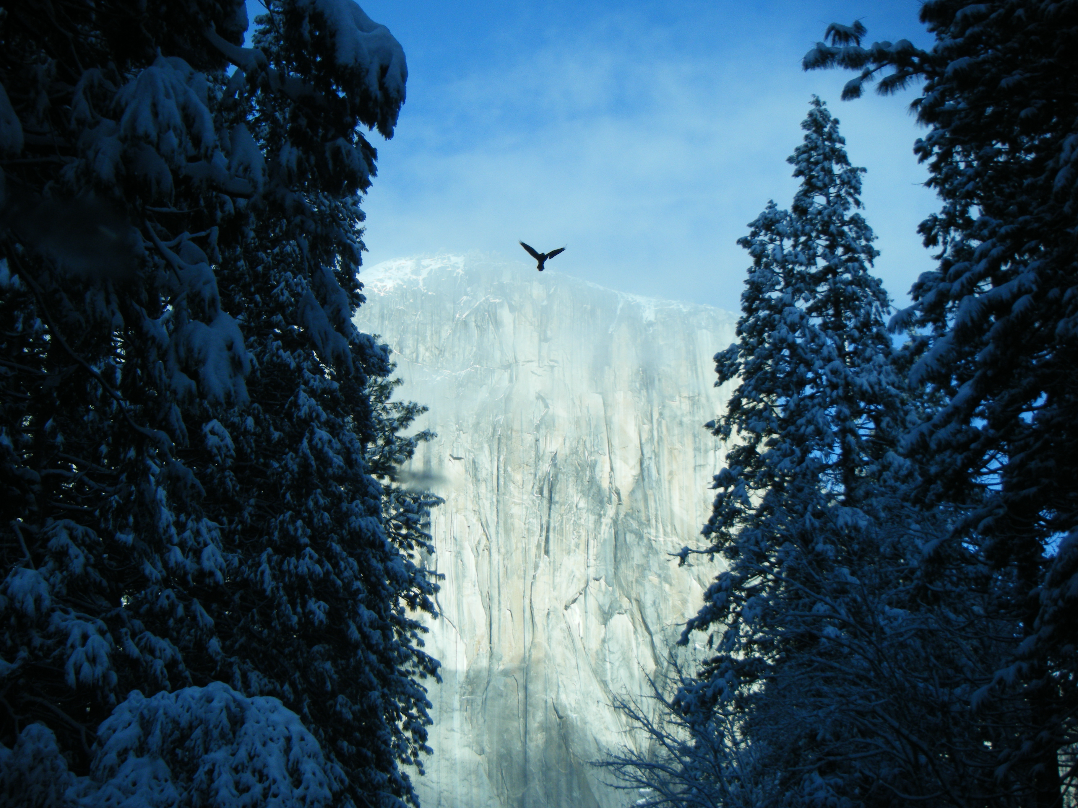 Bird of Prey Flying over Winter Yosemite Mountain